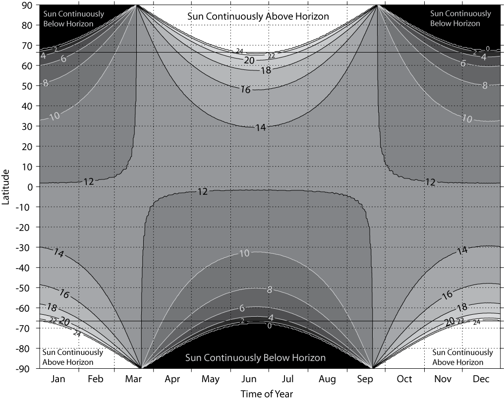 Length of day (sunrise to sunset), in hours, as a function of latitude and time of year. Sunrise and sunset times were calculated using the FORTRAN program sunae.f found at ftp://climate1.gsfc.nasa.gov/wiscombe/Solar_Rad/SunAngles/sunae.f. Atmospheric refraction appropriate for the US Standard Atmosphere is applied at all latitudes, though the correction should vary by latitude and time of year. Contours are not necessarily smooth because of the 0.5-degree latitude spacing used in the calculations. Calculations were performed for the 365 days in 2007 on the Greenwich Meridian. For each minute during 2007 the sun's elevation (the angle between a flat horizon and the apparent location of the center of the sun, accounting for refraction) was calculated at -90, -89.5, -89, ..., 89.5, and 90° latitude and 0° longitude. The sunrise time was found by linearly interpolating to the time when the solar elevation was 0°, going from negative to positive; the sunset time was found the same way but for the elevation going from positive to negative. This ignores the fact that the diameter of the sun is about 0.5°, meaning the top of the sun does not drop below the horizon until the solar elevation is -0.25°. Ignoring the diameter of the sun slightly shortens the calculated length of the day, but the difference is not significant when plotted on this scale.